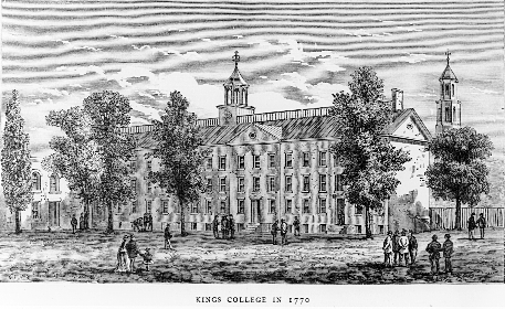 Kings College (Columbia University) 1770